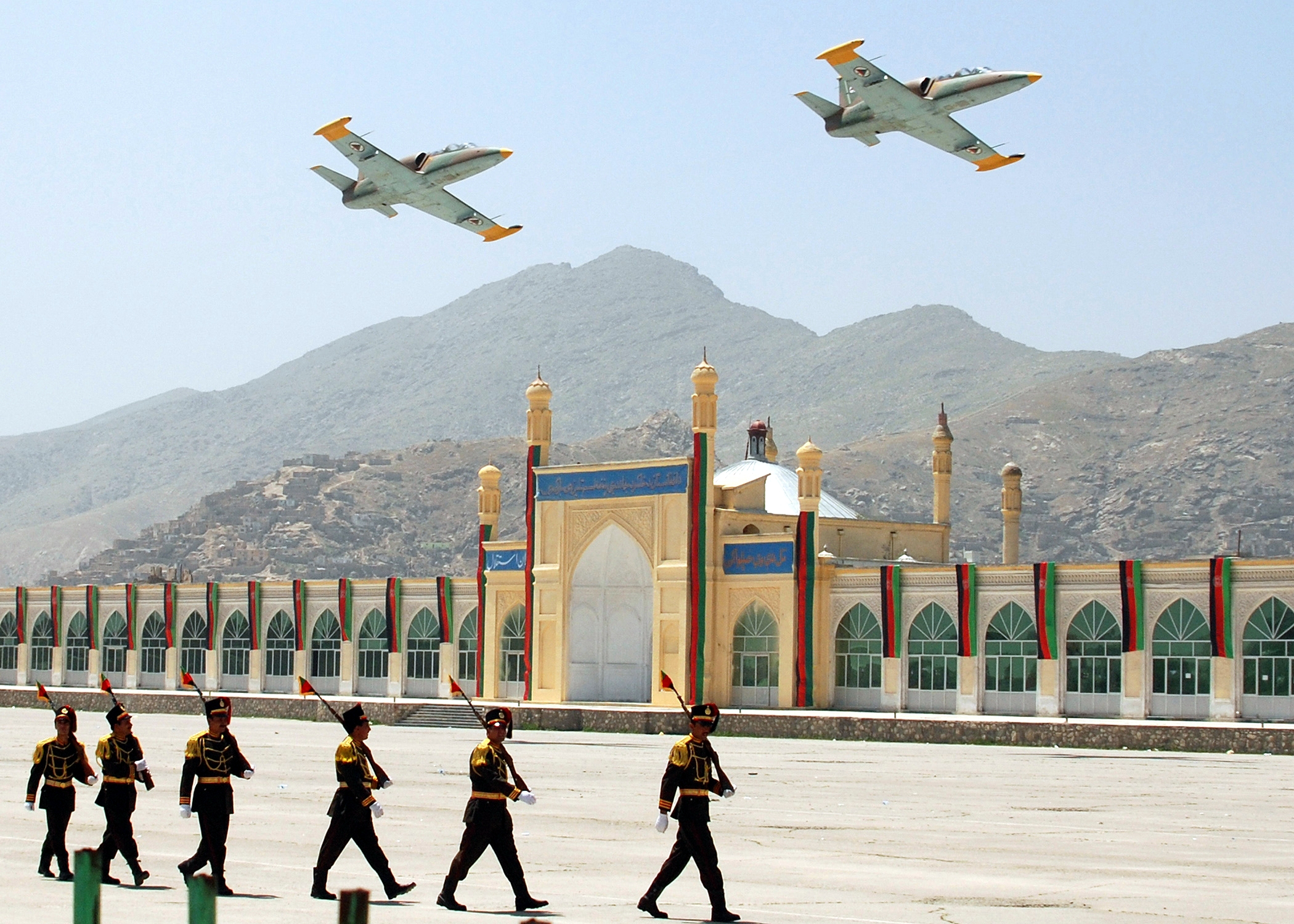 Afghan Air Force jets pass in review during a parade commemorating the 15th anniversary of the Mujahideen victory. This occasion marks the capture of Kabul from the communist regime.